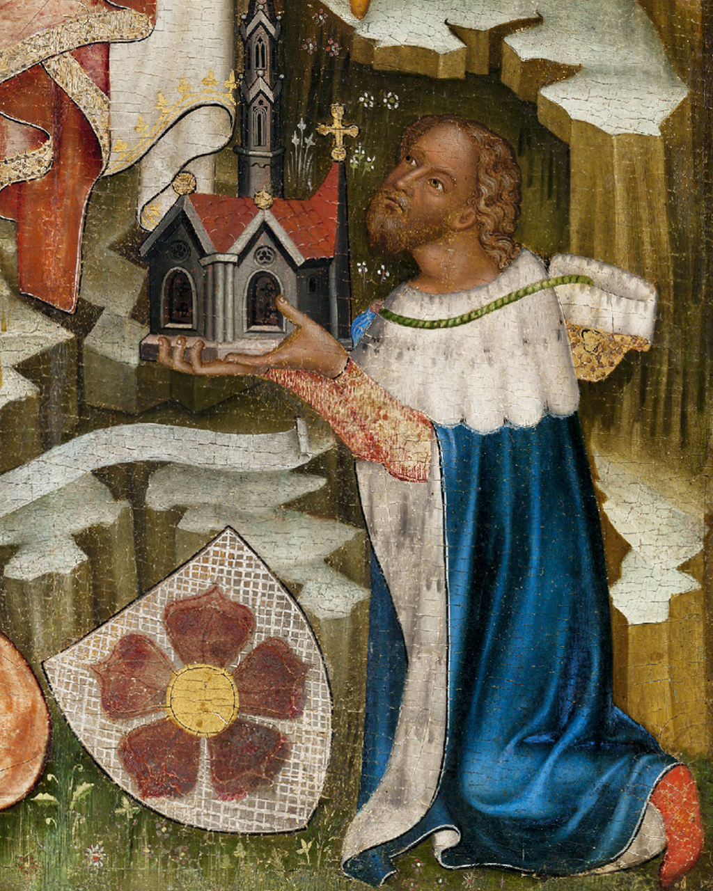 Hohenfurth Altarpiece - Nativity of Jesus (detail of the donator figure), National Gallery in Prague